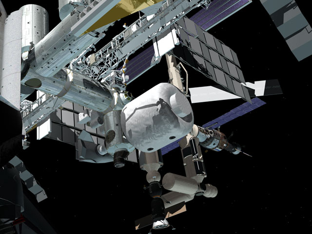 The Transhab module docked to the ISS